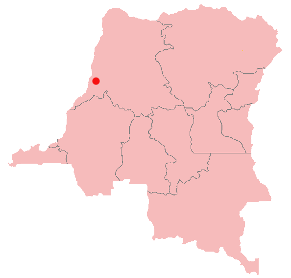 Mbandaka, Democratic Republic of the Congo Location Map; created with the GIMP. Made by User:Acntx.